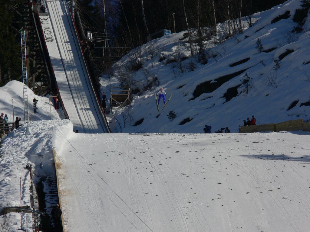 From the 2009 Ski Flying event in Vikersund, Norway.